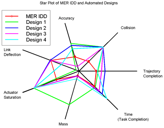 Star plot In this star plot, the center represents the most desirable results. The red line represents the handcrafted MER IDD, and is used for comparison and validation of the approach. This graph illustrates the fact that improvements in one metric often come at the expense of others. However, design samples 3 and 4, which were among the last of the 10 actually produced, show the best overall results in the most important metrics.